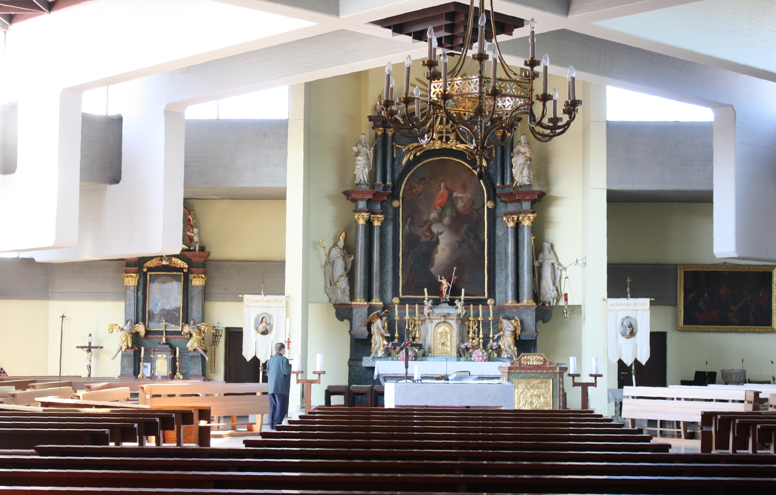 Apetlon (Seewinkel), the village church, inner view